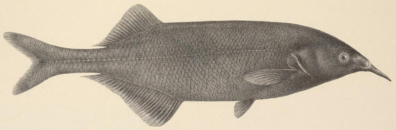 Gnathonemus longibarbis